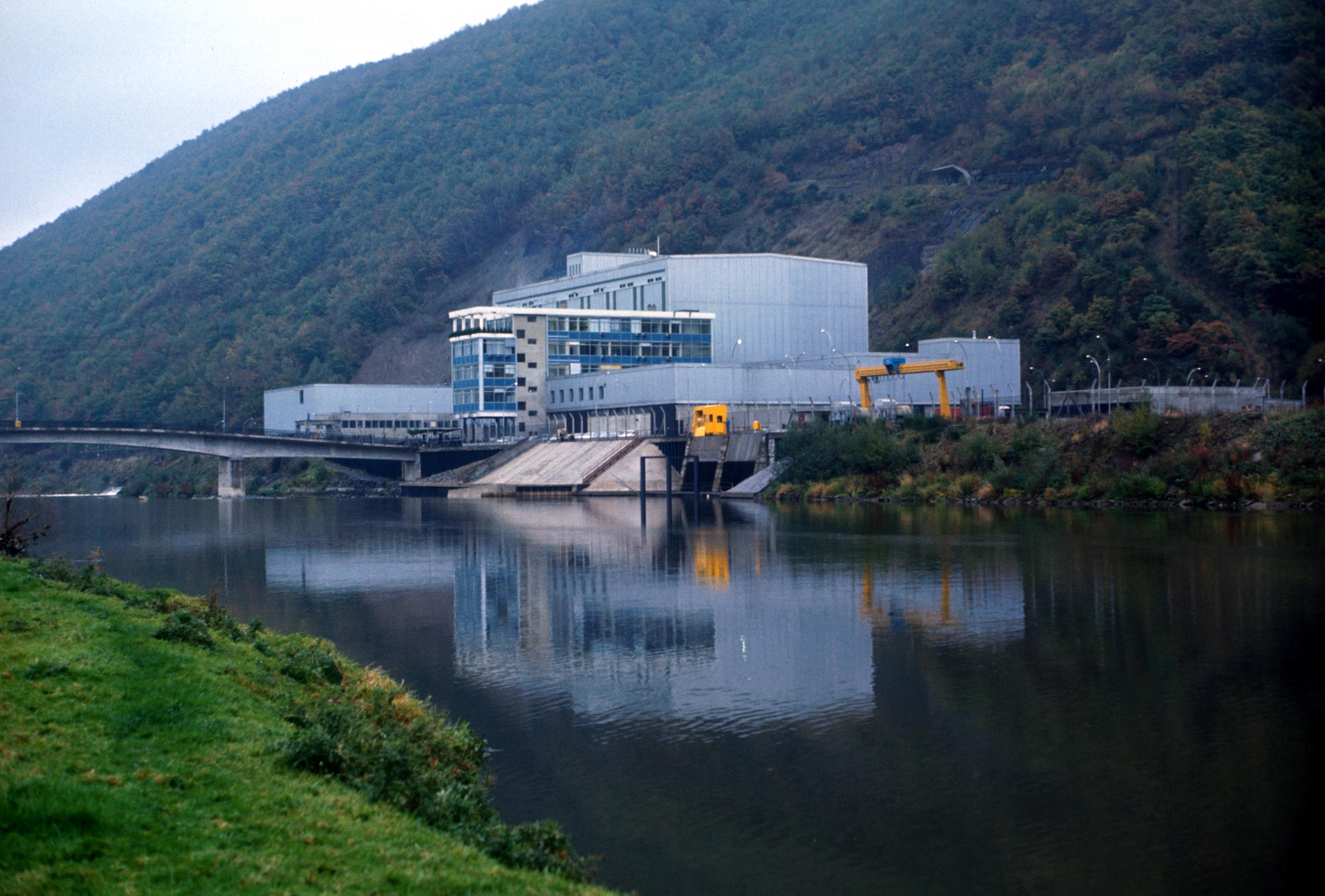 France -- Sena Nuclear Plant. For more information or additional images, please contact 202-586-5251.